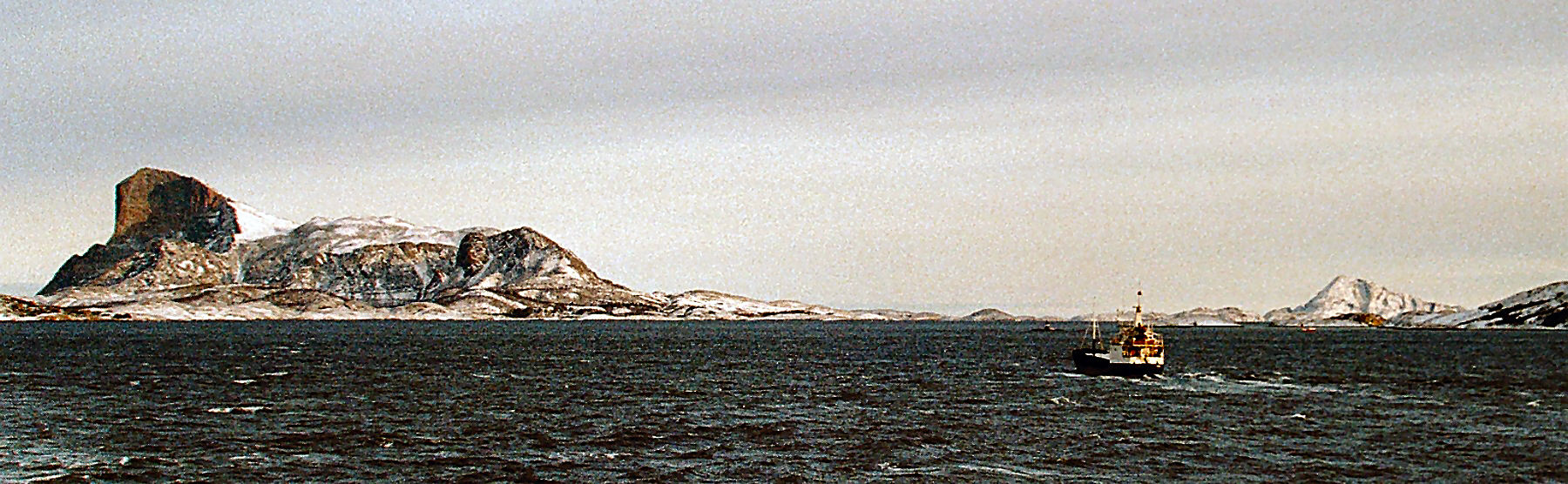 Rødøya island with the mountain Rødøyløva, Nordland, Norway. Winter 2004-2005